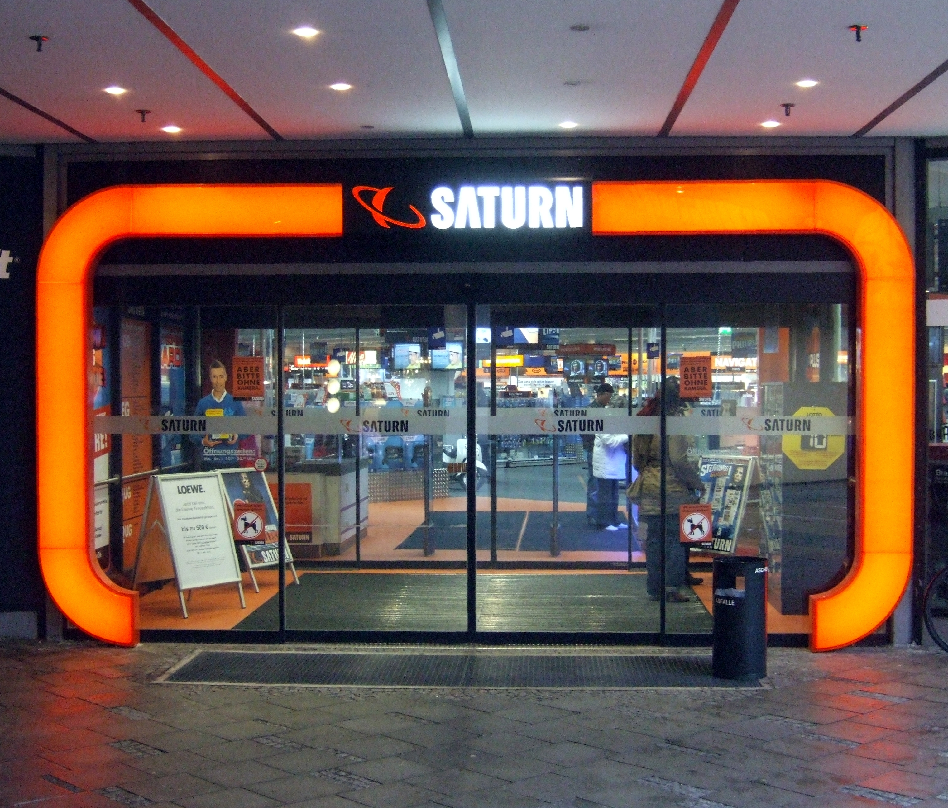 Entrance of Saturn market Theresienhöhe, Munich